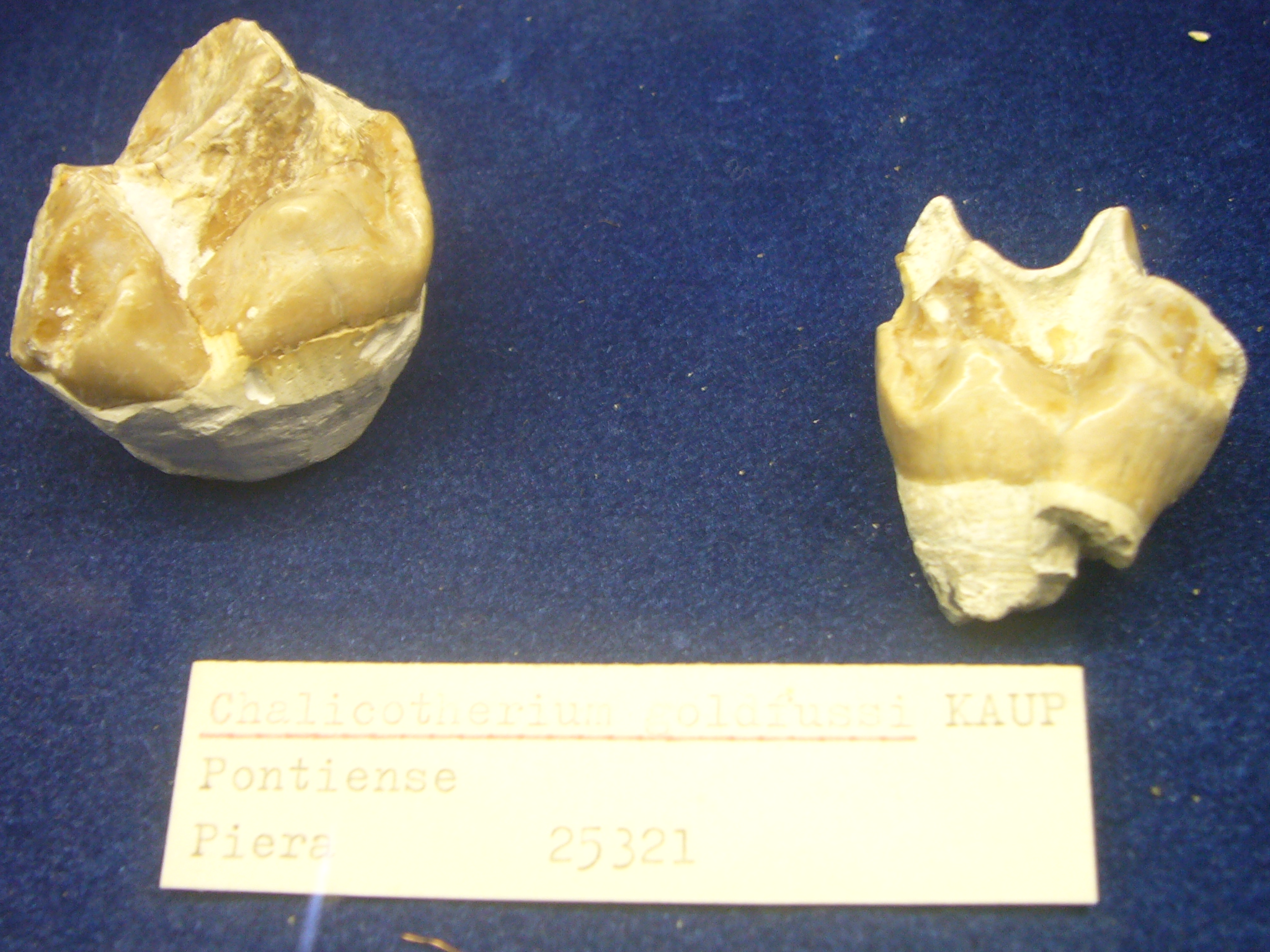 Chalicotherium goldfussi. Collection of paleontology of the Geological Museum of the Barcelona Seminari (Museu Geològic del Seminari de Barcelona).